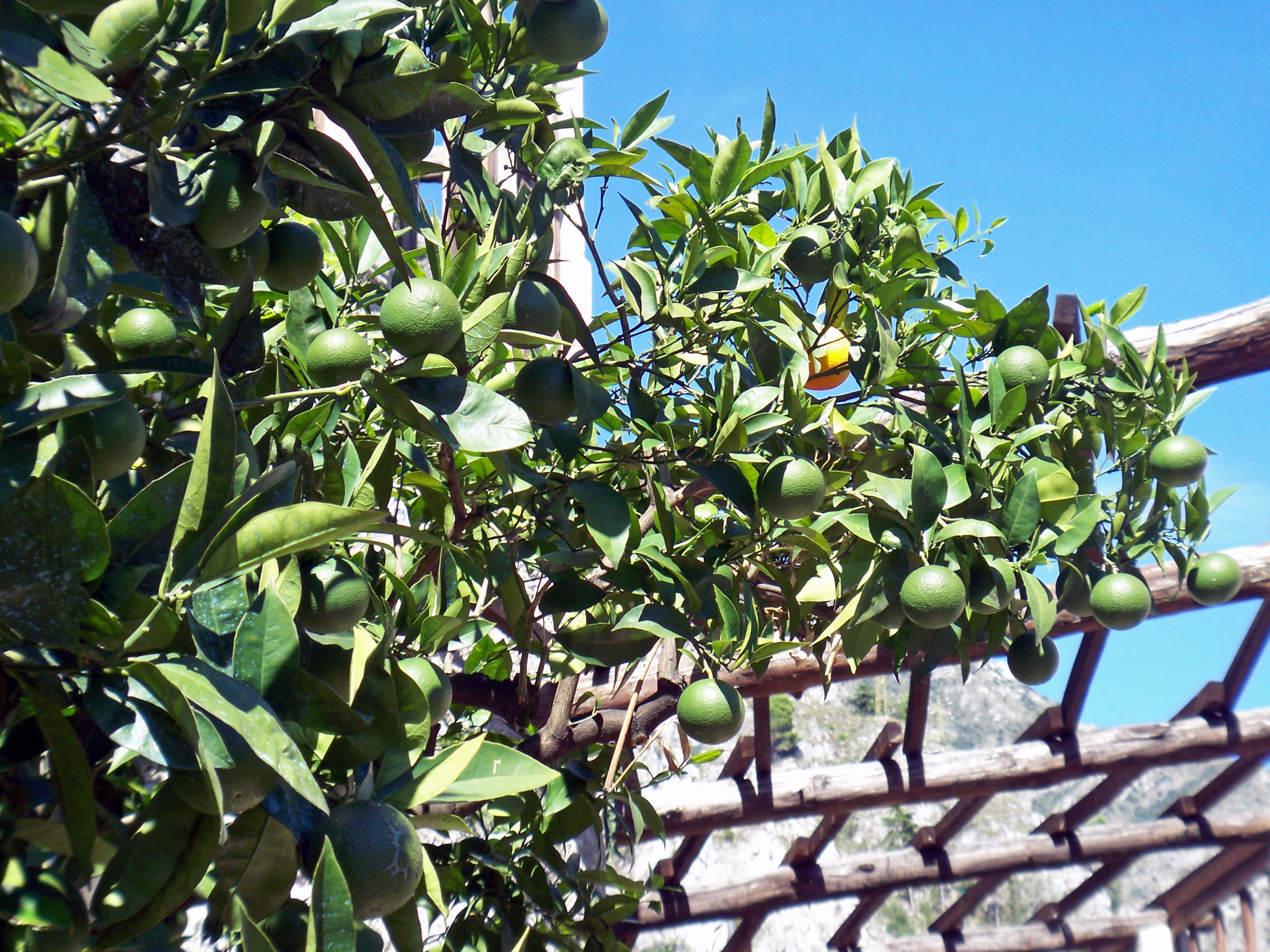 Citrus x limon, Lemon tree orange tree (Citrus sinensis).